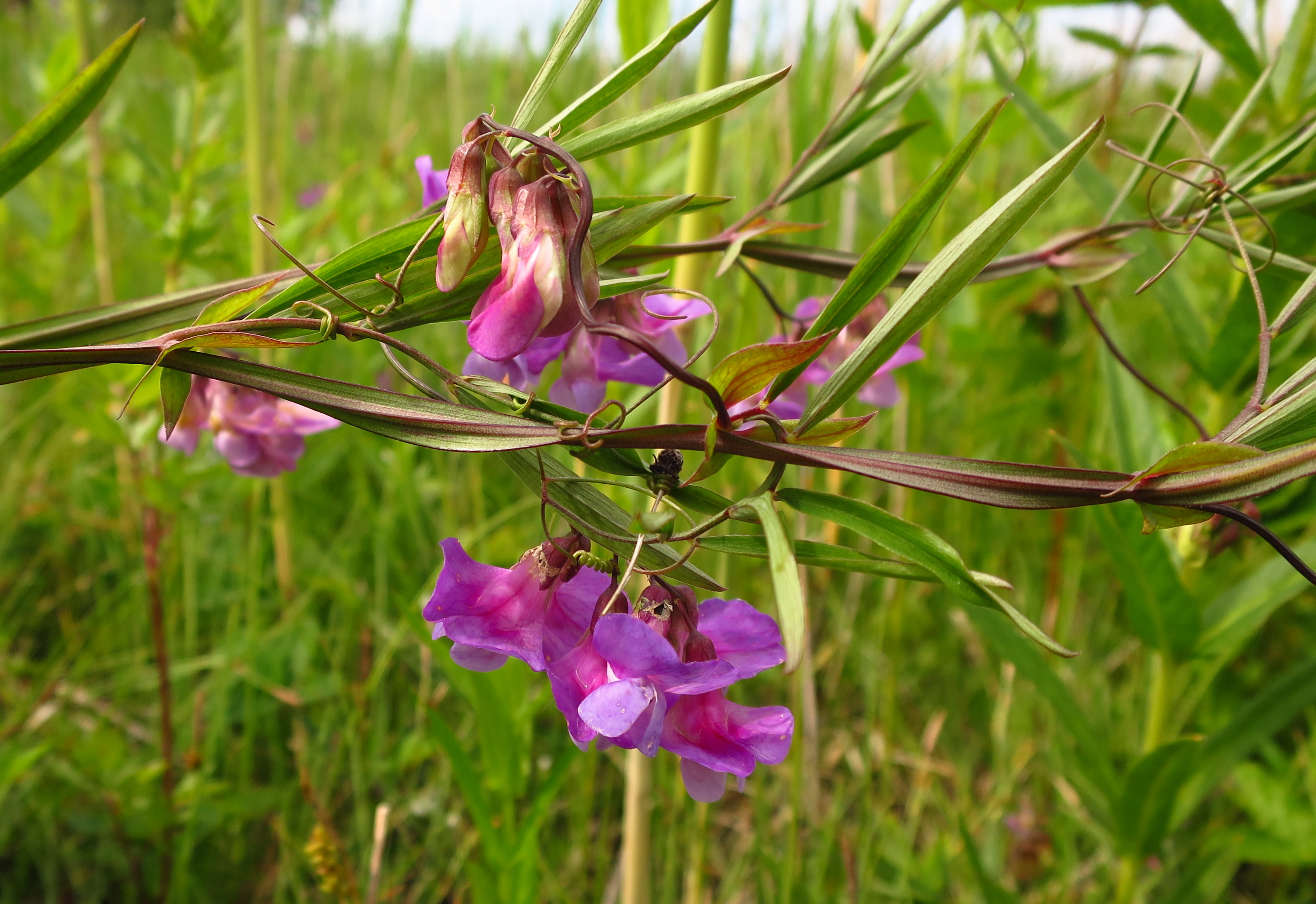 Lathyrus palustris in Estonia